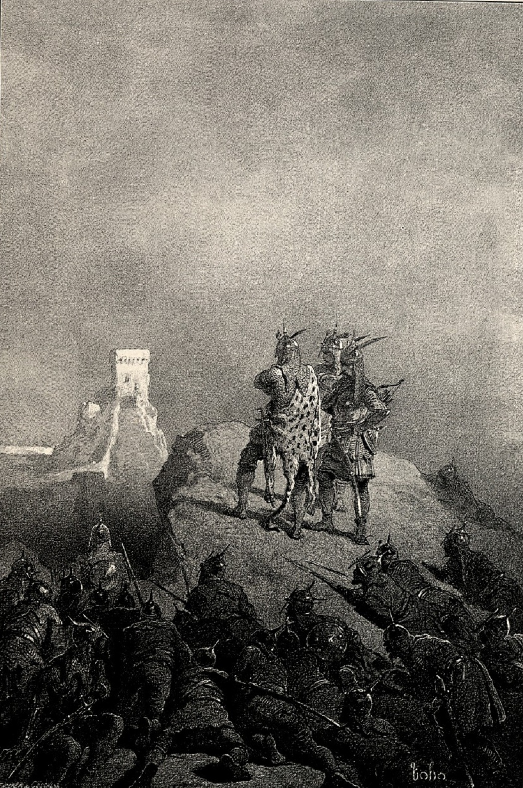 An illustration to the medieval Georgian epic poem Vep'xistq'aosani ("The Knight in the Panther's Skin") by the Hungarian artist Mihály Zichy (photozincography by Angerer in Vienna and color chromolithography by Breze). Scanned from the 1888 Georgian edition of the poem by the National Parliamentary Library of Georgia.